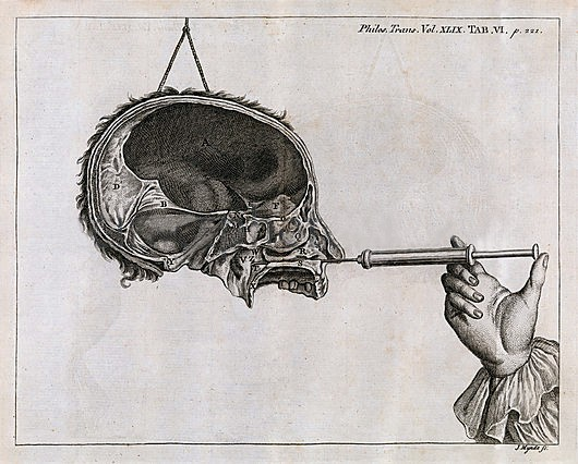 Illustration from a 1756 article by Jonathan Wathen (c.1728-1808), surgeon